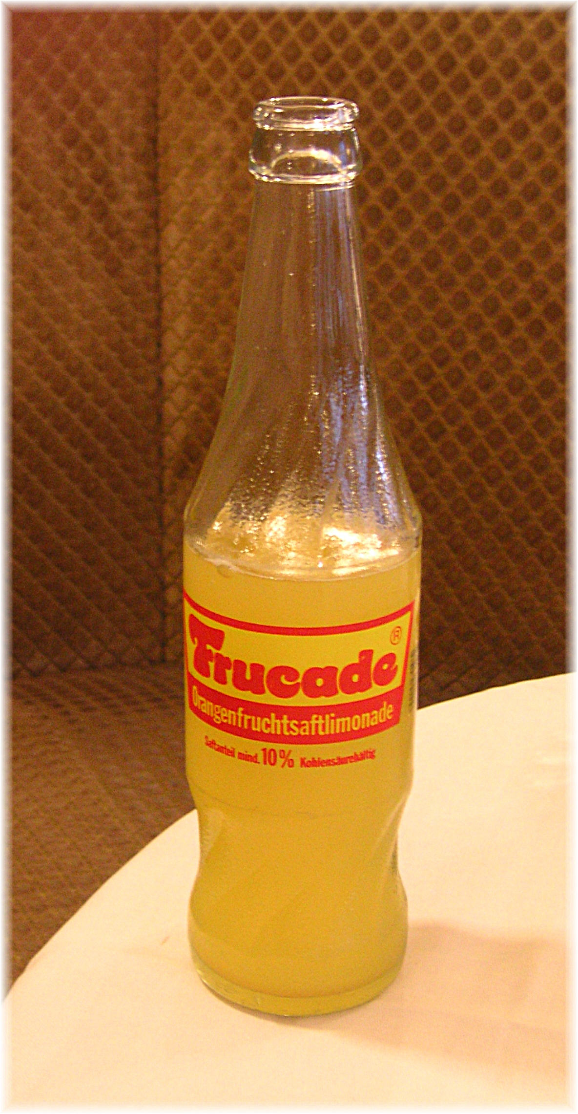 A bottle of Frucade served at a Viennese café in 2005. The label reads: Orangenfruchtsaftlimonade. Saftanteil mind[estens] 10%. Kohlensäurehältig. ("Orange juice lemonade. Contains at least 10% juice. Carbonated.") Photo by KF.